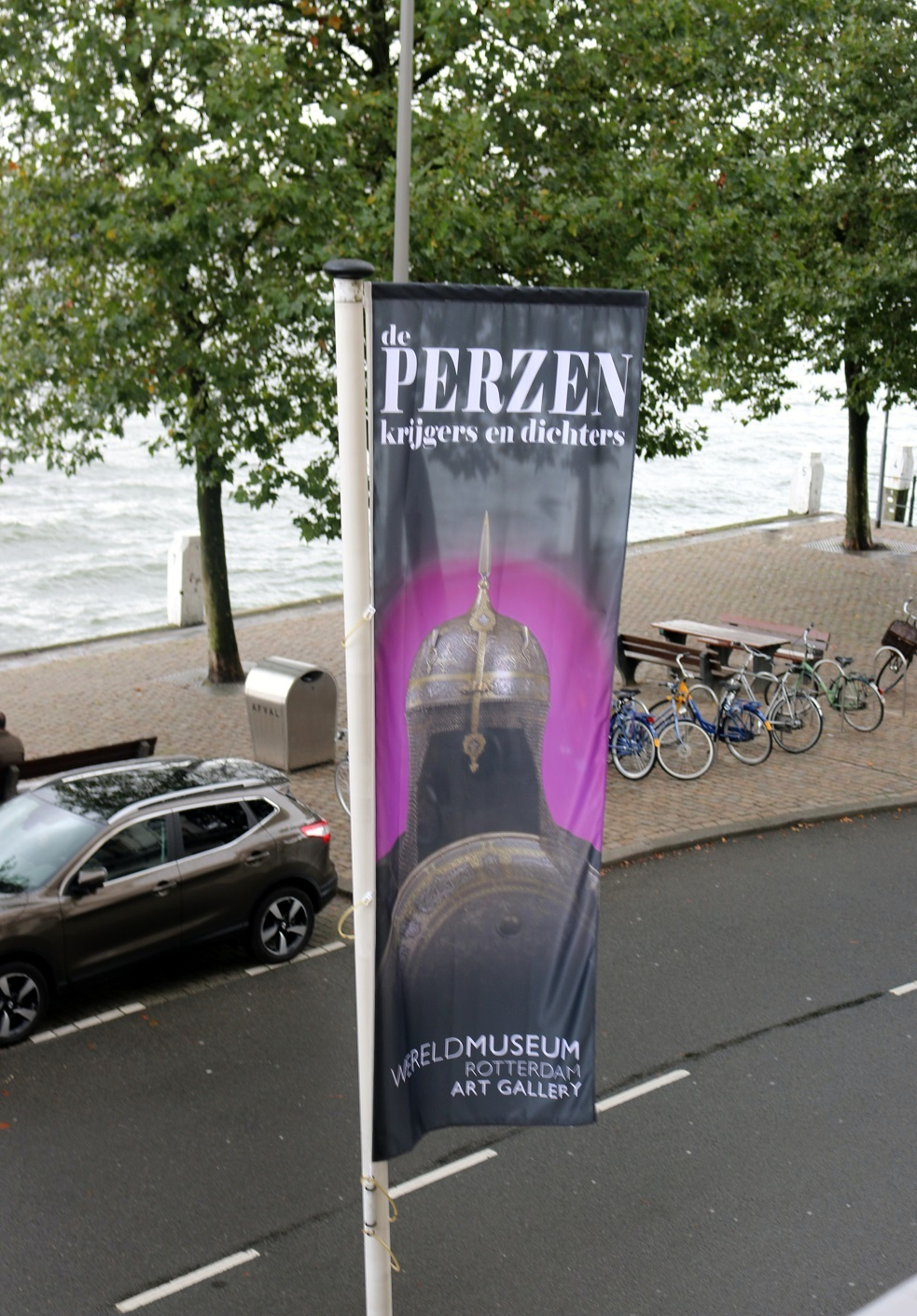 Banner of the exhibition "The Persians – Warriors and Poets" which organized at World Museum of Rotterdam, in Holland - Sep. 2015 - Photo by Persian Dutch Network